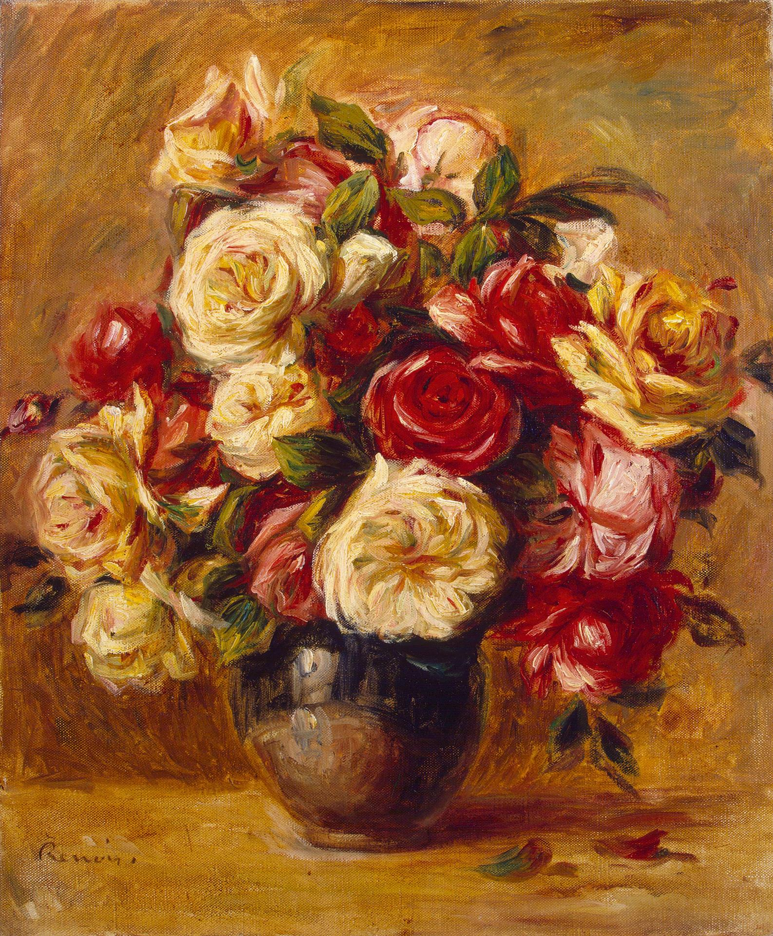 Bouquet of Roses